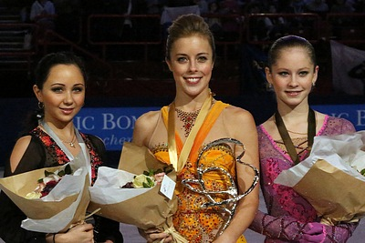 The ladies podium at the Trophée Eric Bompard 2012. From left: Elizaveta Tuktamysheva (2nd), Ashley Wagner (1st), Julia Lipnitskaia(3rd).